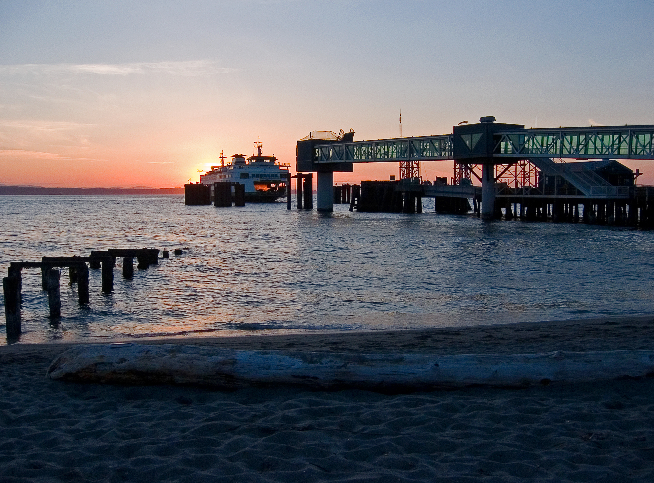 Another solstice sunset shot of the Edmonds-Kingston ferry arriving at Edmonds.